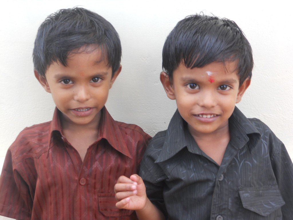 Six Year Old